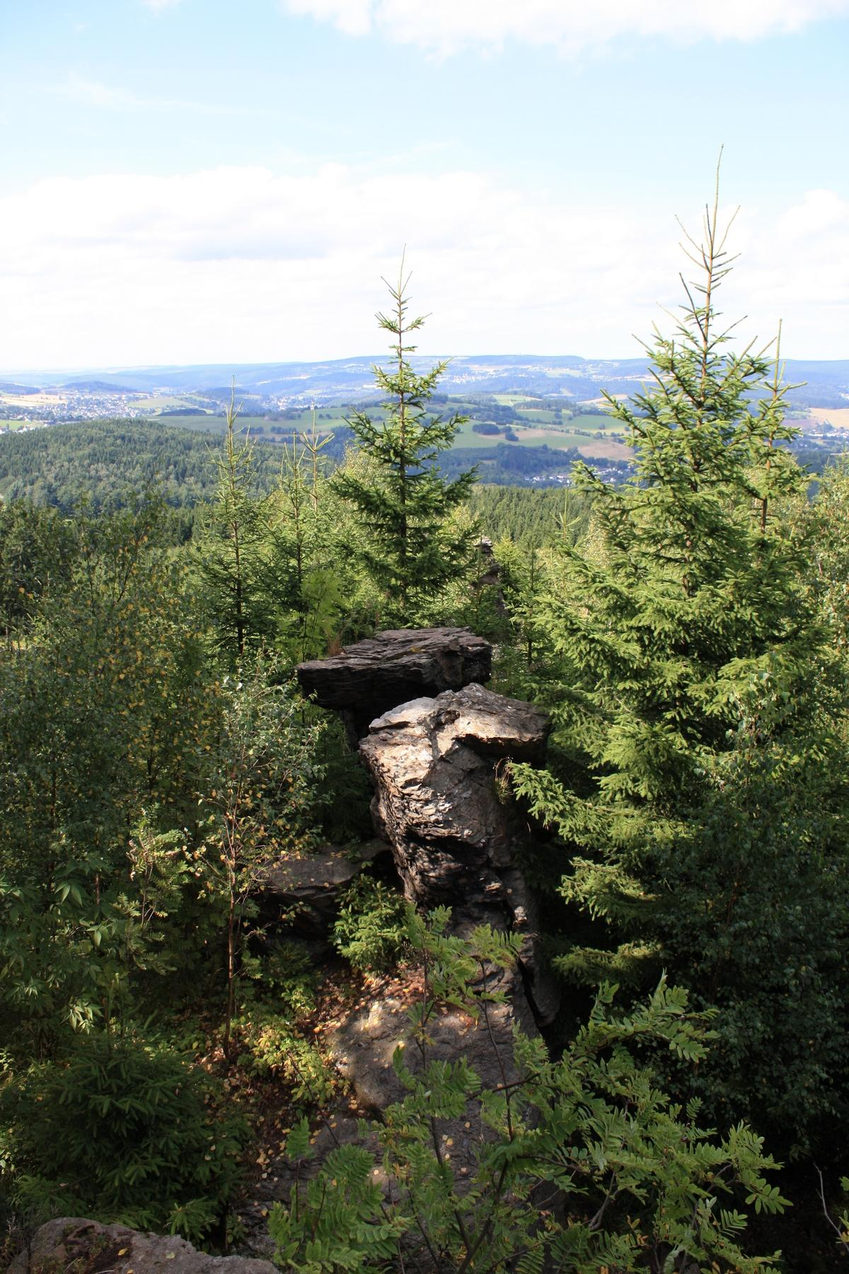 Ochsenkopf Mountain near Rittersgrün: View towards Spiegelwald Tower.